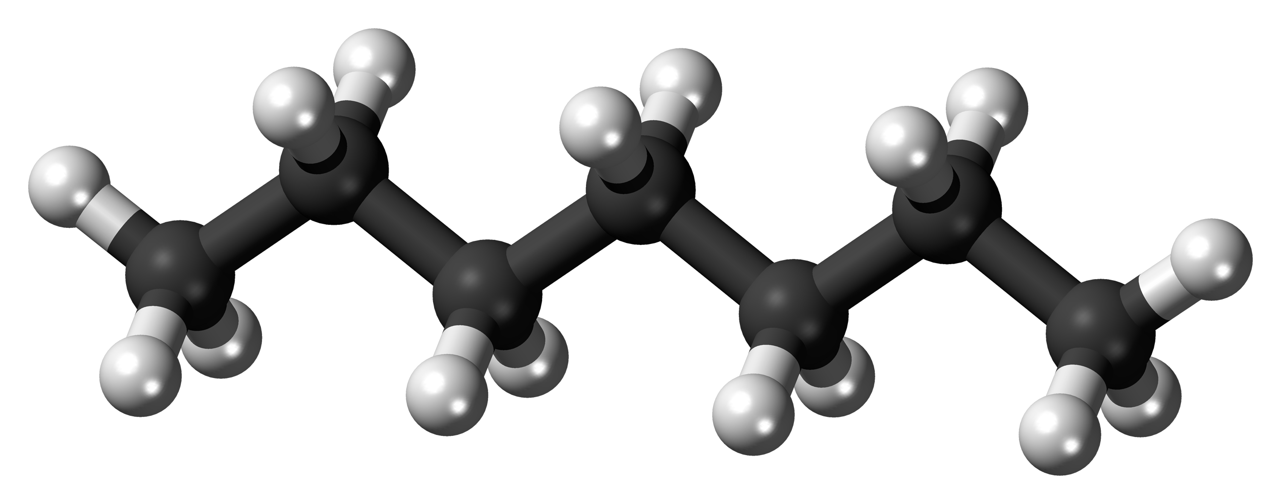 Ball-and-stick model of the heptane molecule, an alkane with seven carbon atoms. Color code: Carbon, C: black Hydrogen, H: white